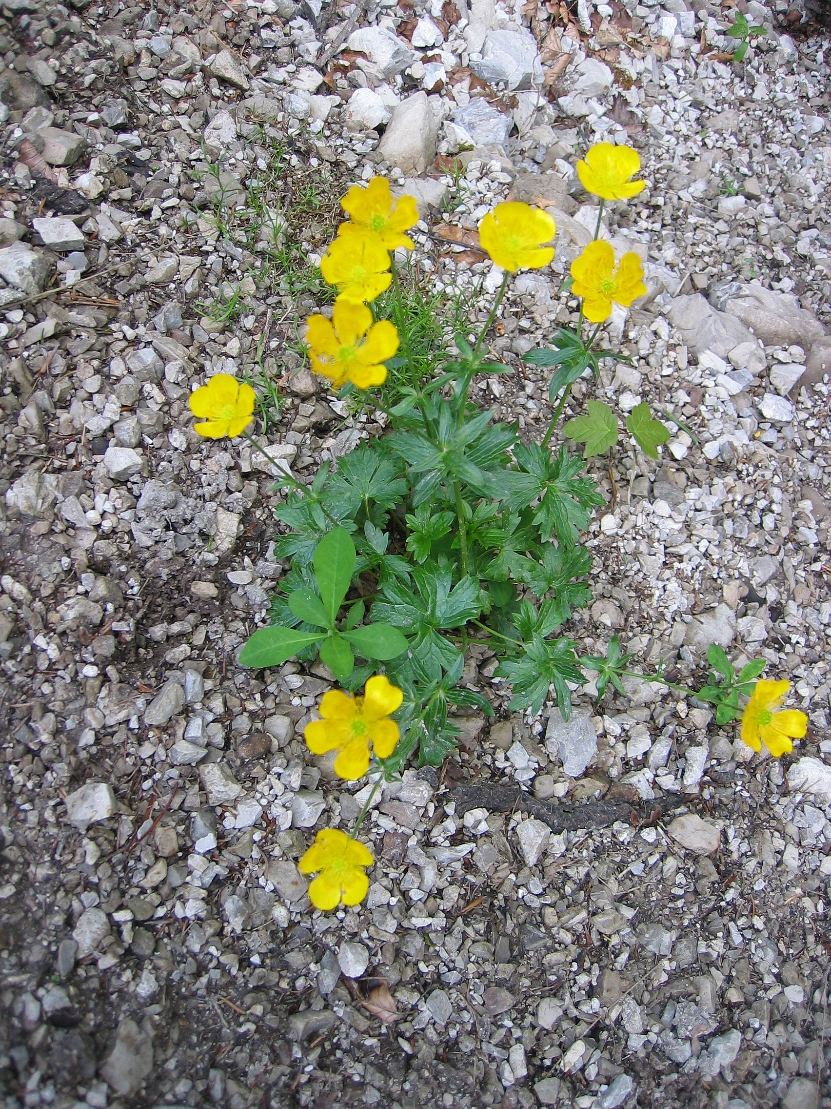 Ranunculus montanus, Hinterstoder, Upper Austria, Austria